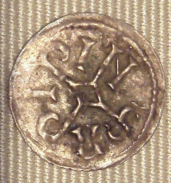 Pepin_II_d_Aquitaine_obole_845_to_848.